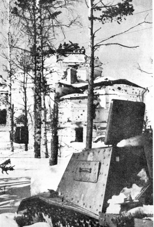 Kyyrölä Church ruins during Winterwar